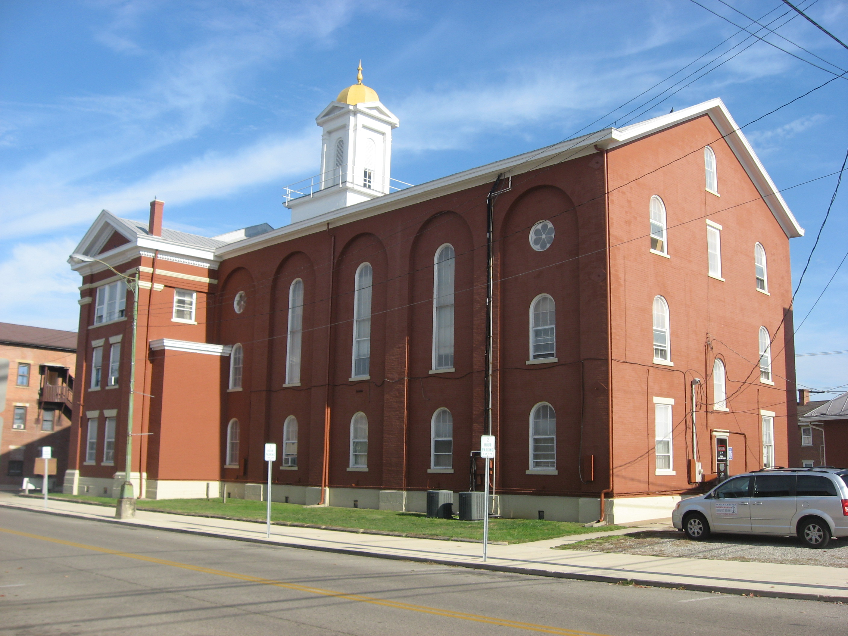 Southwestern side and rear of the Pike County Courthouse, located on the eastern corner of the junction of Second (State Routes 220/335) and Market Streets in downtown Waverly, Ohio, United States. Built in 1866, it is part of the Waverly Canal Historic District, a historic district that is listed on the National Register of Historic Places.